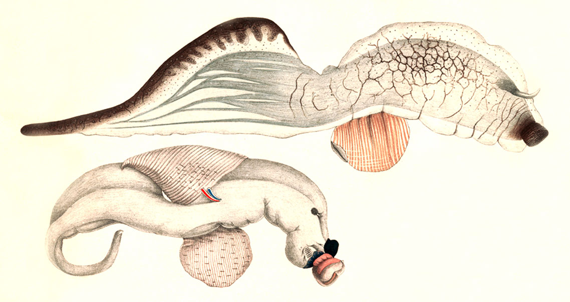 Drawing of two Carinaria cristata in live coloration, according to color sketches that had been made directly after the catch during Siboga Expedition. Above, a 42 cm long animal without shell, which was found floating on the surface. In the lower specimen the shell is present but oddly positioned low on the trunk.